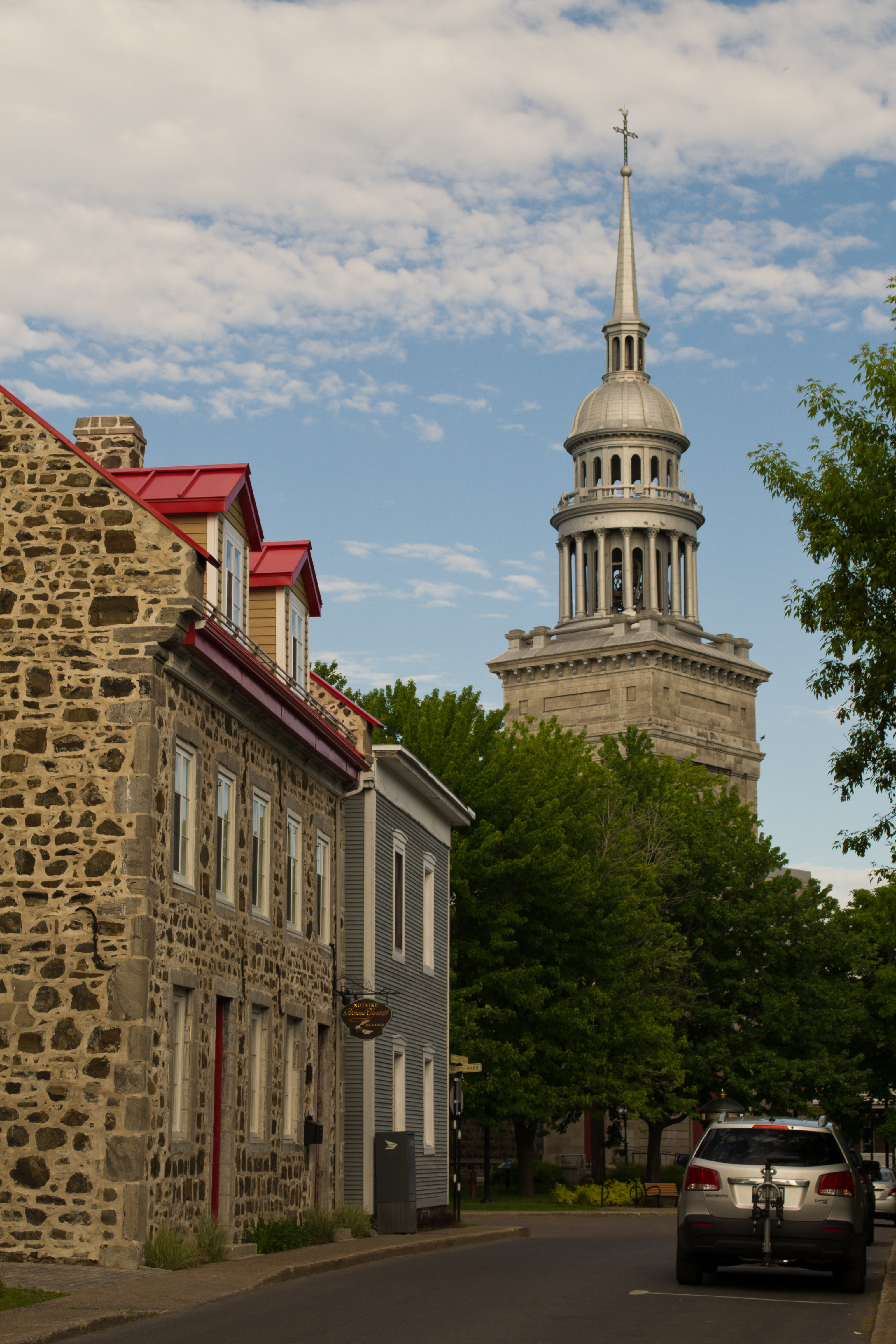 Chemin de Saint-Jean in old La Prairie, Quebec